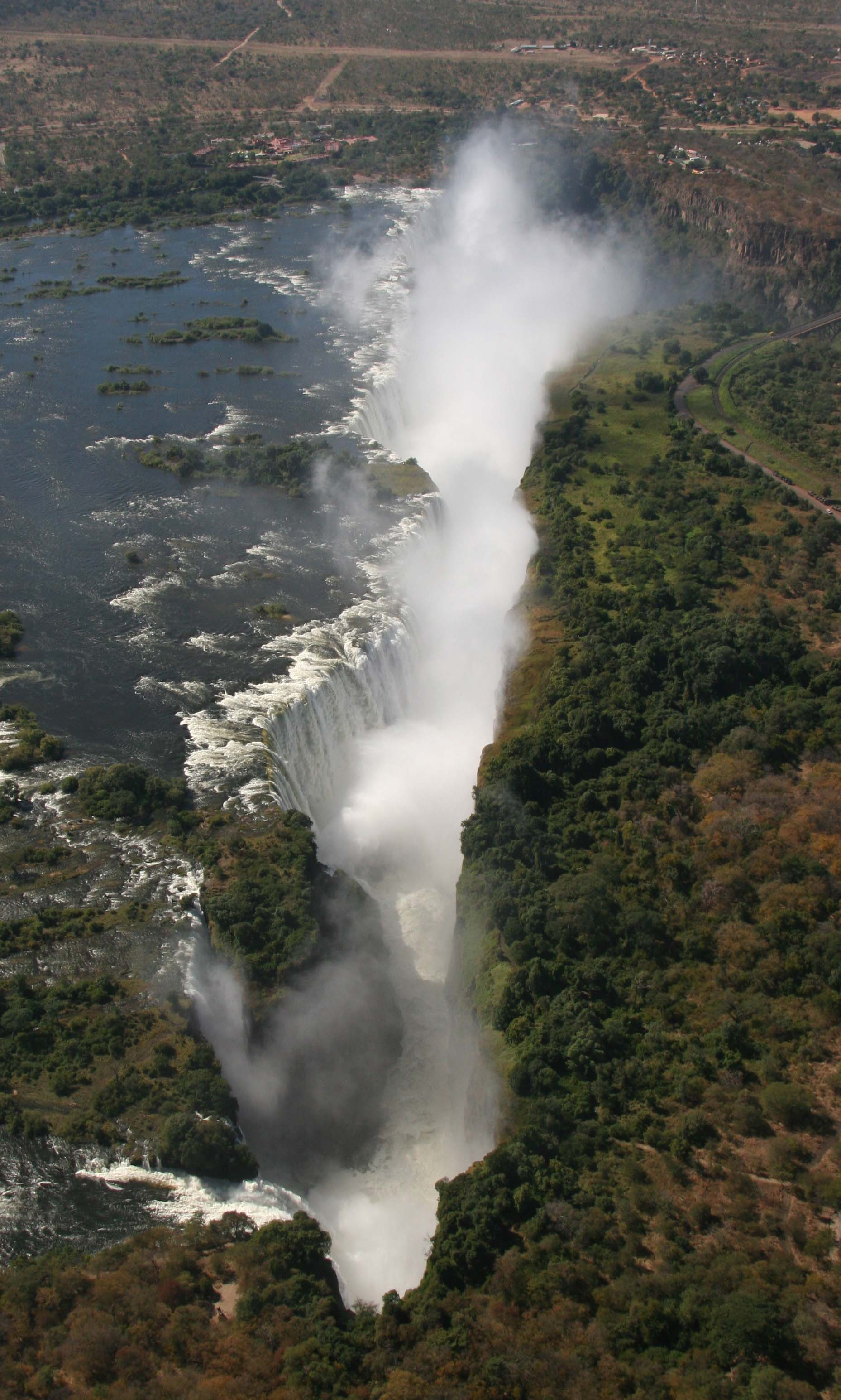 "The smoke that thunders". Aerial perspective of Victoria Falls, the worlds greatest curtain of falling water. Photo taken from a helicopter in May 2007, Zambia.